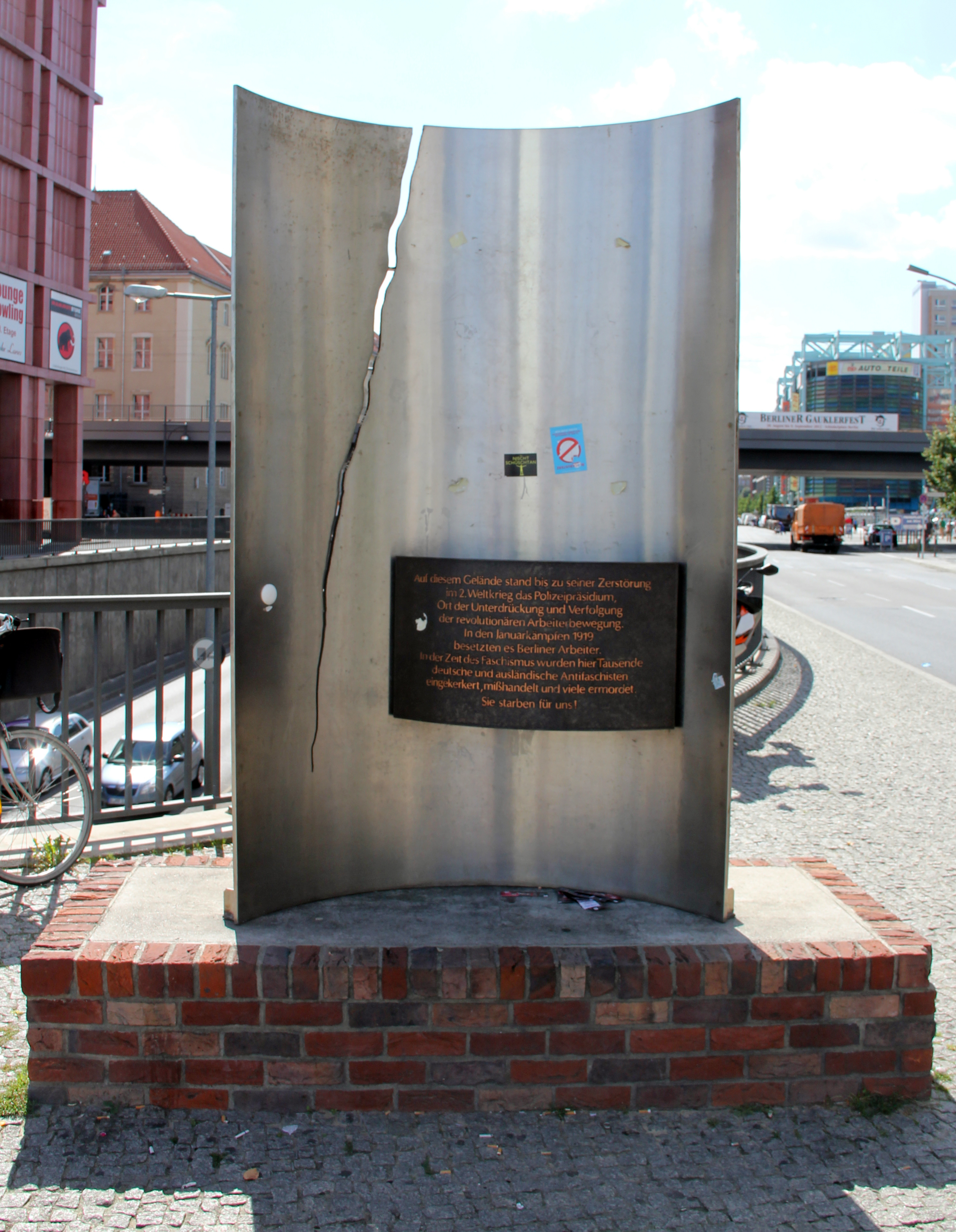 Memorial, Polizeipräsidium Alexanderplatz, Grunerstraße 11, Berlin-Mitte, Germany